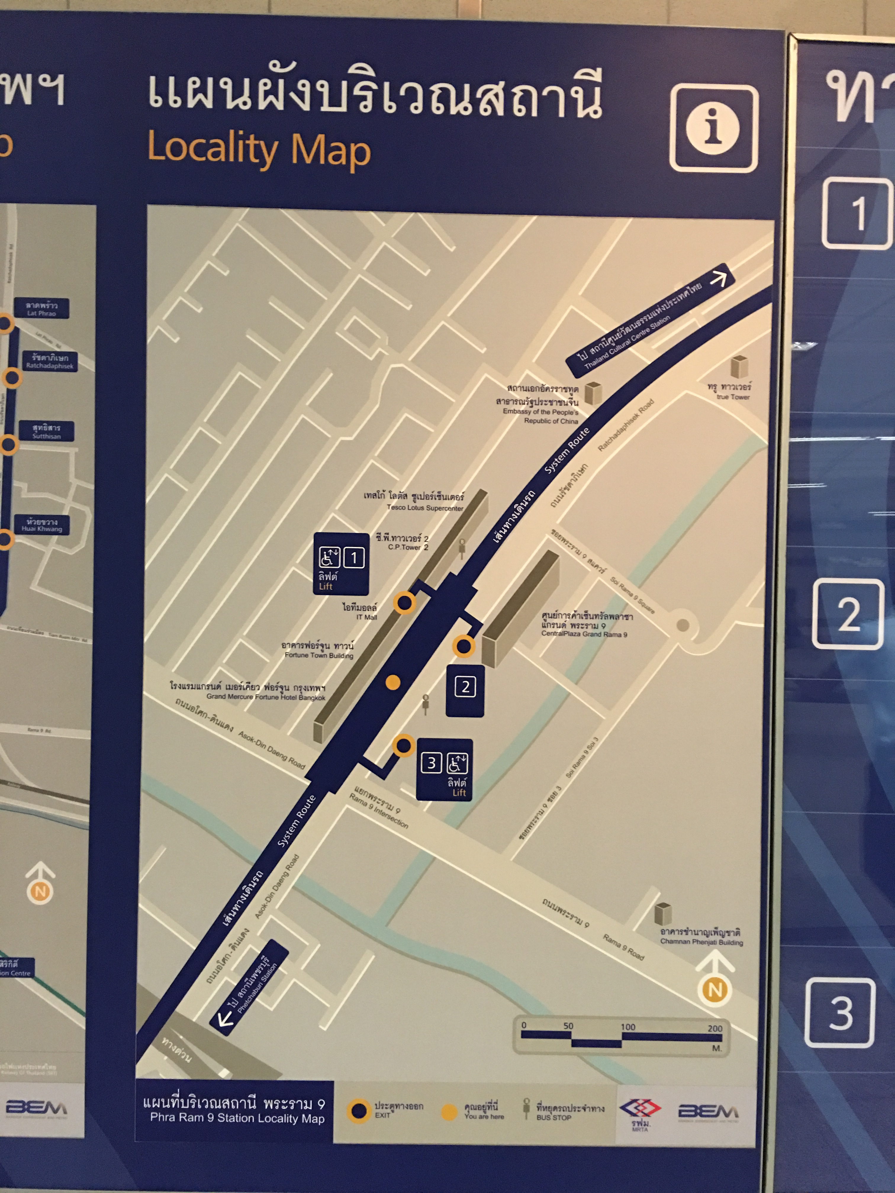 The locality map of Phra Ram 9 Station